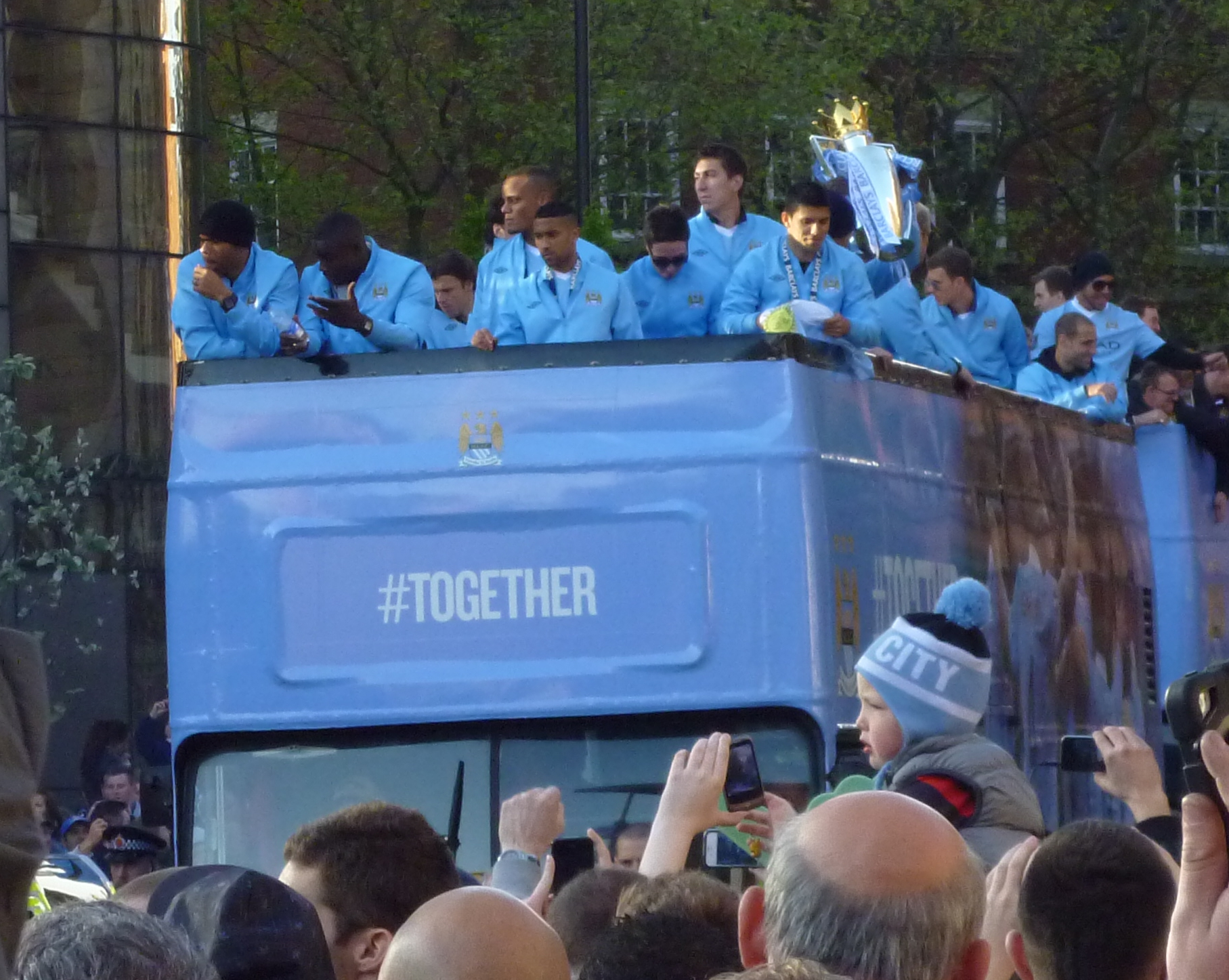 The Manchester City team on their victory parade following their Premier League title win